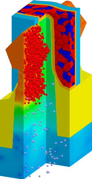 GSS picture on FinFET